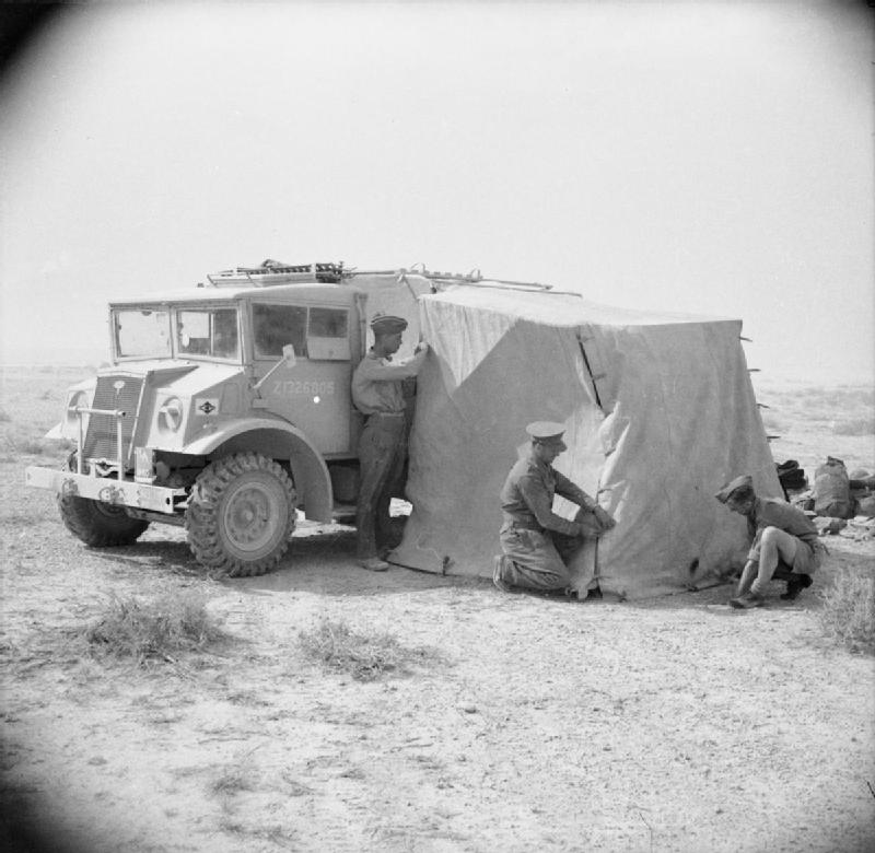 The British Army in North Africa 1942 A CMP Chevrolet truck in use by AFPU cameramen in the Western Desert, 28 April 1942.